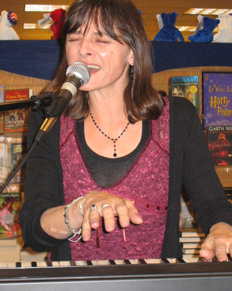 American singer-songwriter Jude Johnstone live in South Portland, Maine.